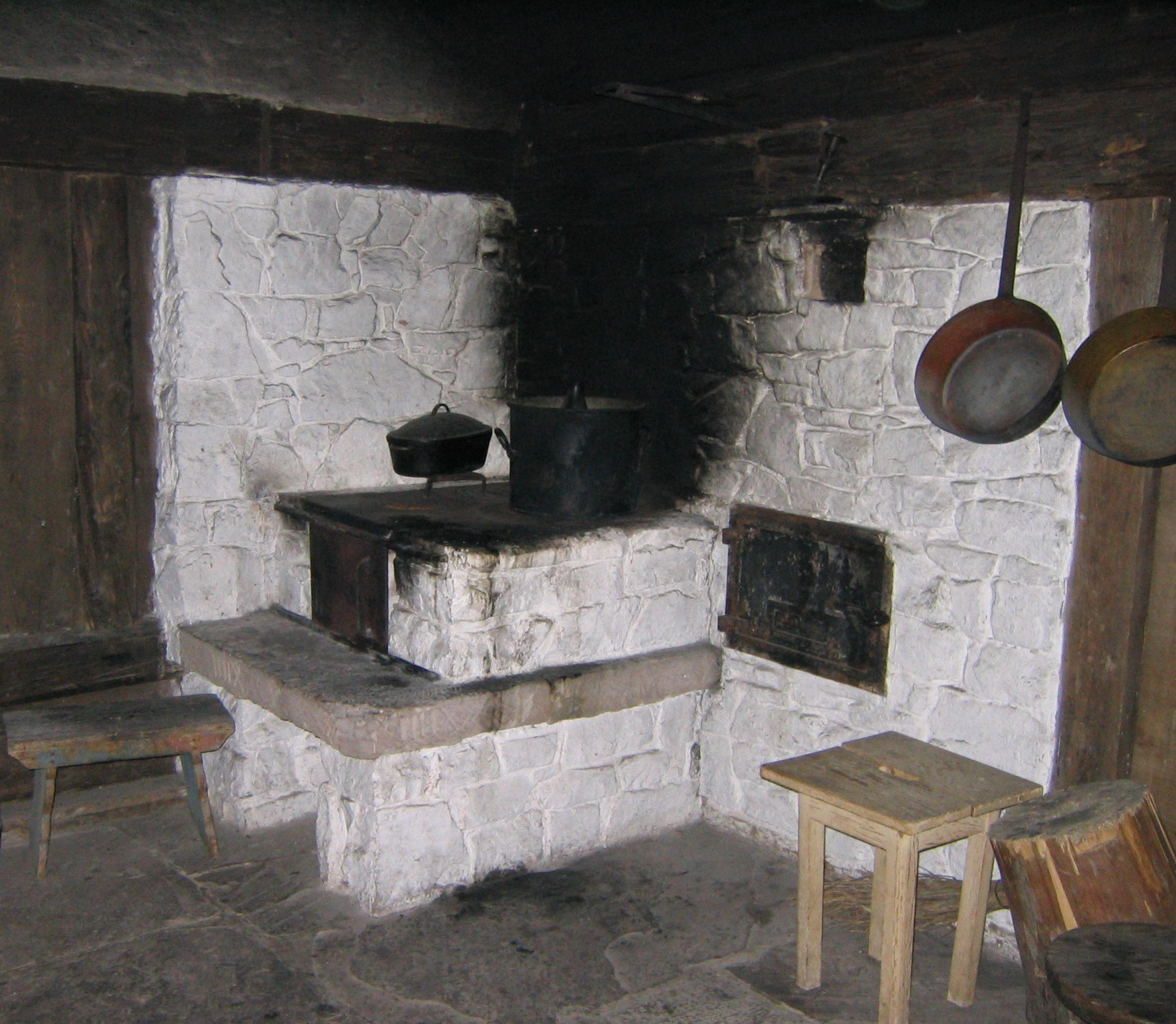 Stove at the Freilichtmuseum Neuhausen ob Eck